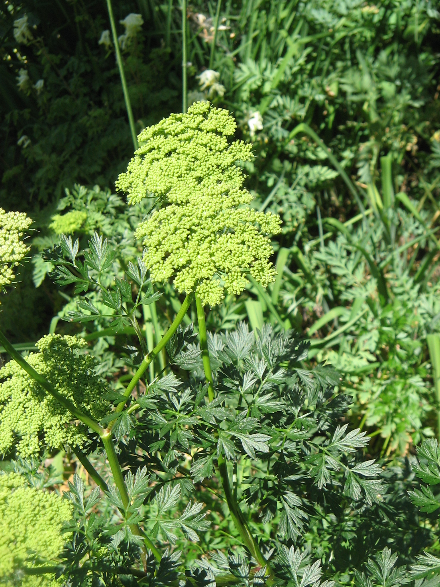 Cenolophium denudatum